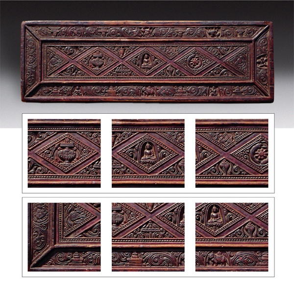 Sculpted Tibetan manuscript cover, carved with central deities and auspicious objects within geometric designs and scrolling borders. Central to the carver's artistic structure, the Buddha Shakyamuni is surrounded by the Eight Auspicious Symbols, among which to his left includes, the "Vase of Treasure." This container symbolizes an endless reign of long life, wealth, prosperity and all of the benefits in this world for the liberated being. To the right of the Buddha, the two "Golden Fish" characterize the auspiciousness of all living beings in a state without danger and migrating from place to place spontaneously, just as fish swim freely without fear through water.